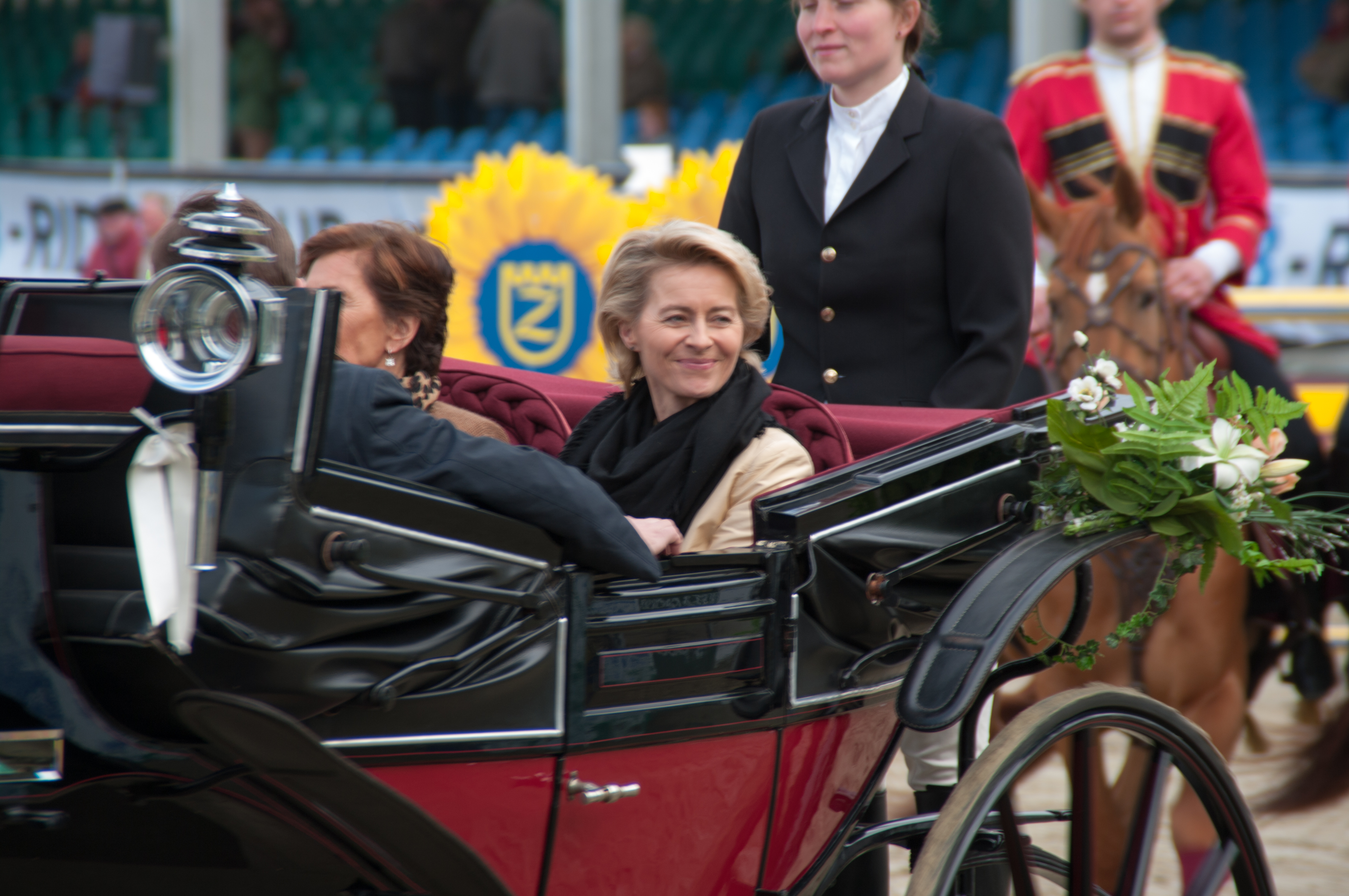 Ursula von der Leyen at the Horses & Dreams Horse Show, Germany